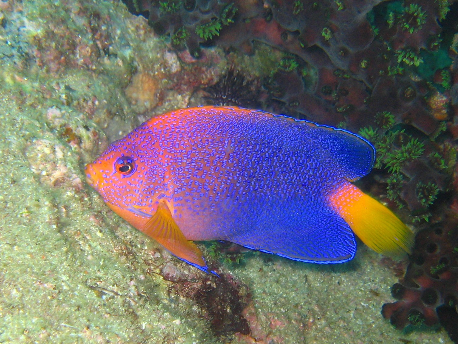 Centropyge interruptus in Kashiwajima Kohchi-ken(Prefecture), Japan